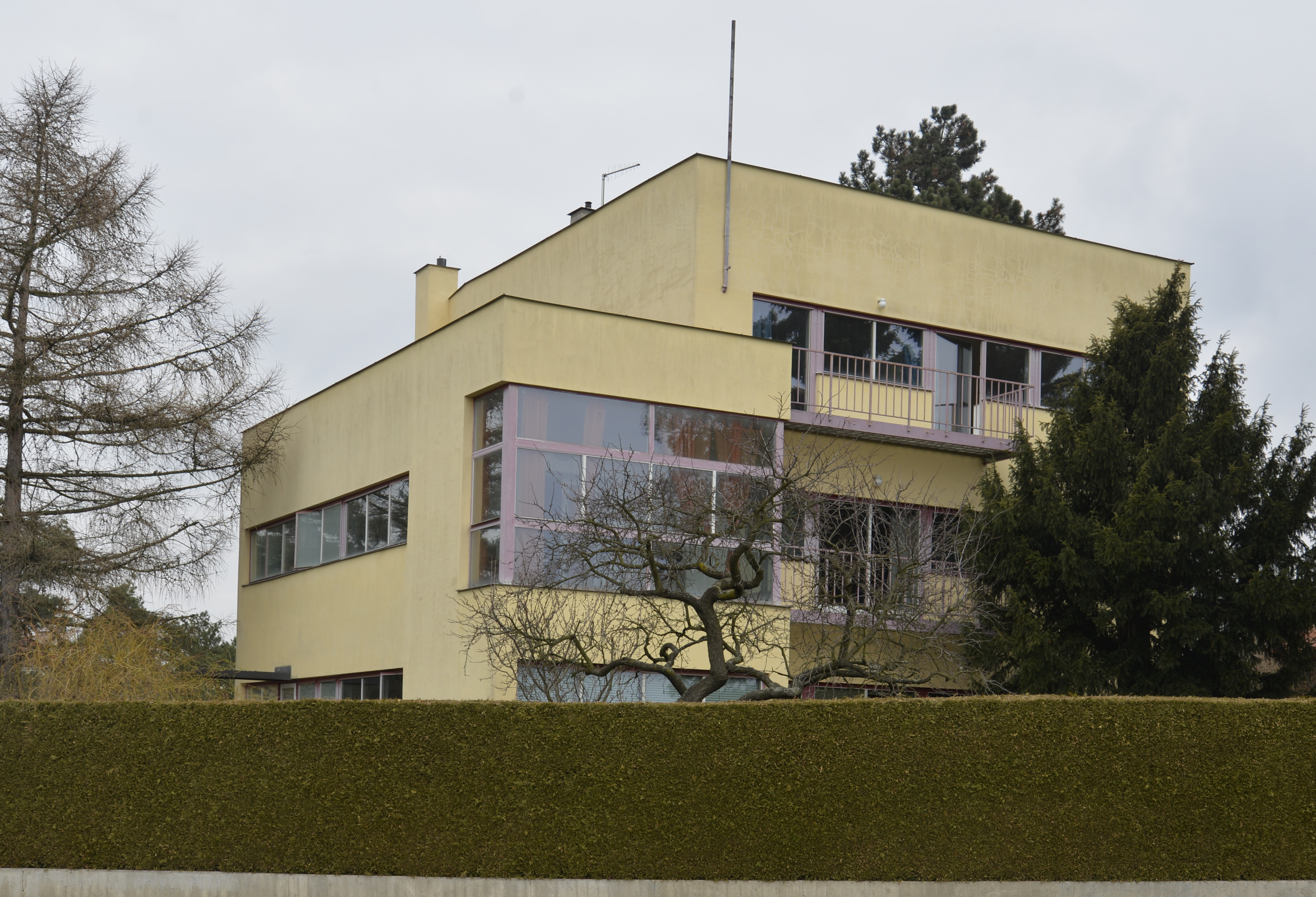 Na Kodymce 25/14, funkcionalist family house, so called villa Mölzer, architect František Maria Černý, 1938-39, Dejvice, Praha